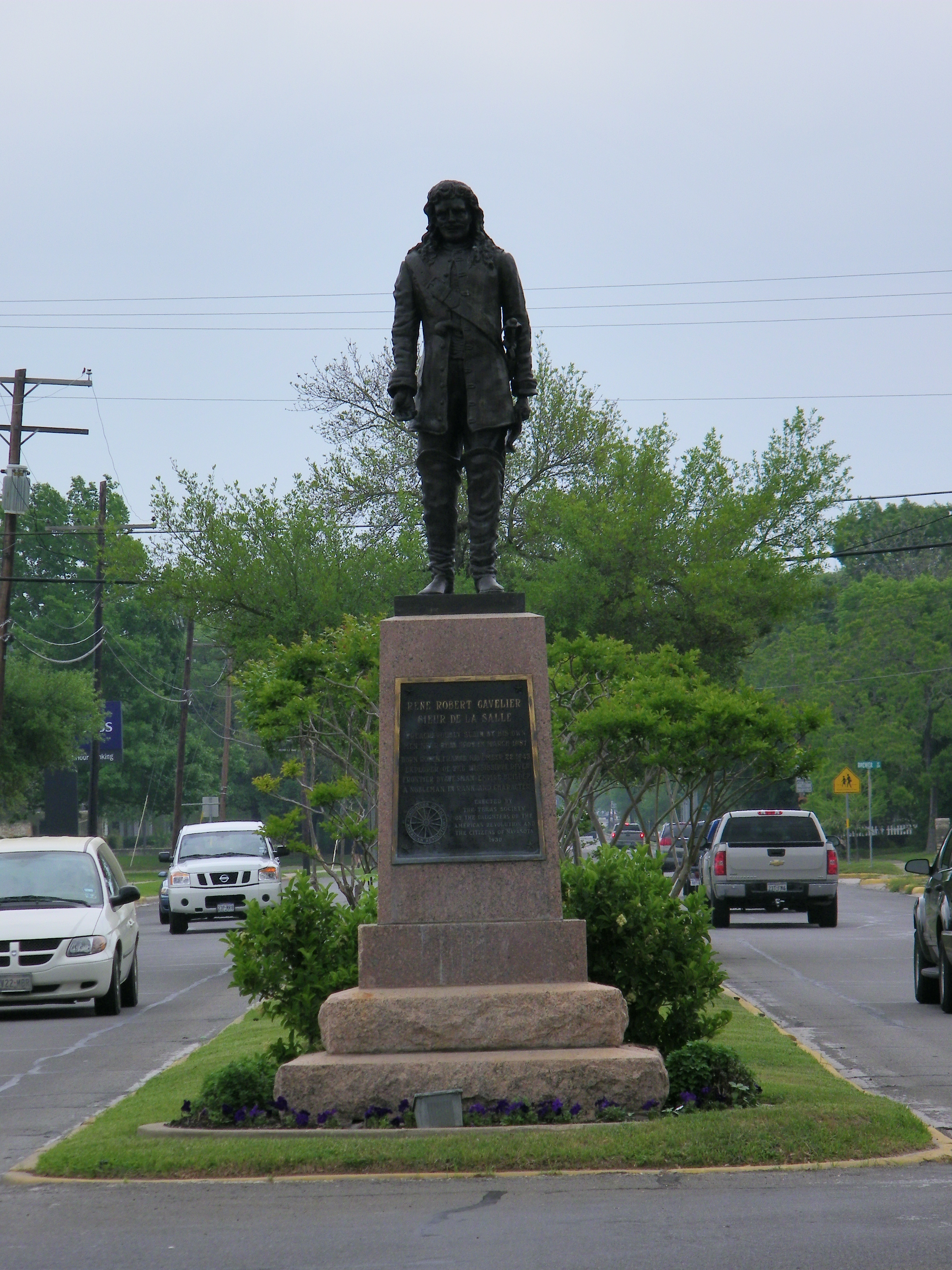 Statue of René-Robert Cavelier, Sieur de La Salle located in Navasota, Texas where he was slain.